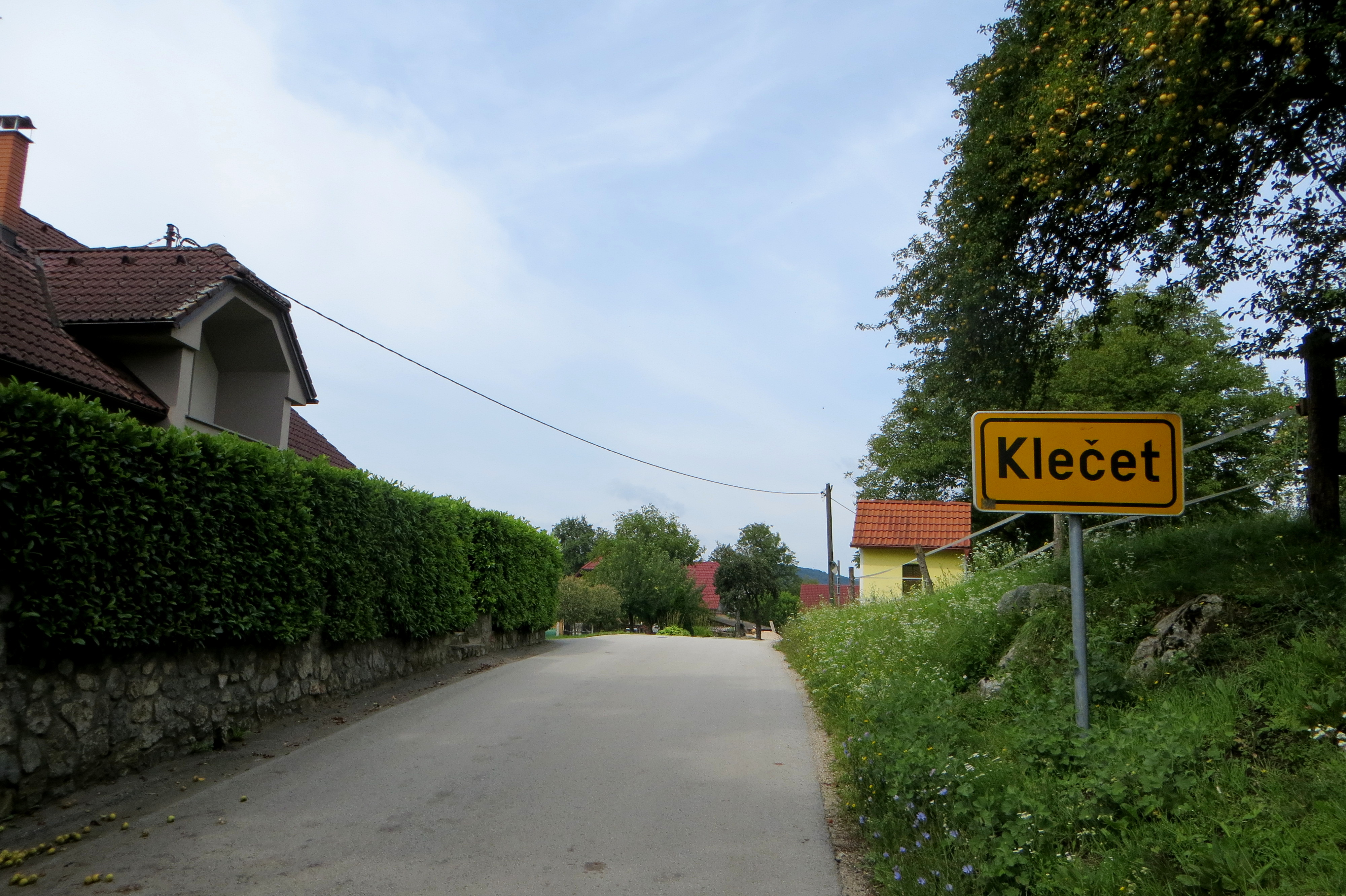 Klečet, Municipality of Žužemberk, Slovenia